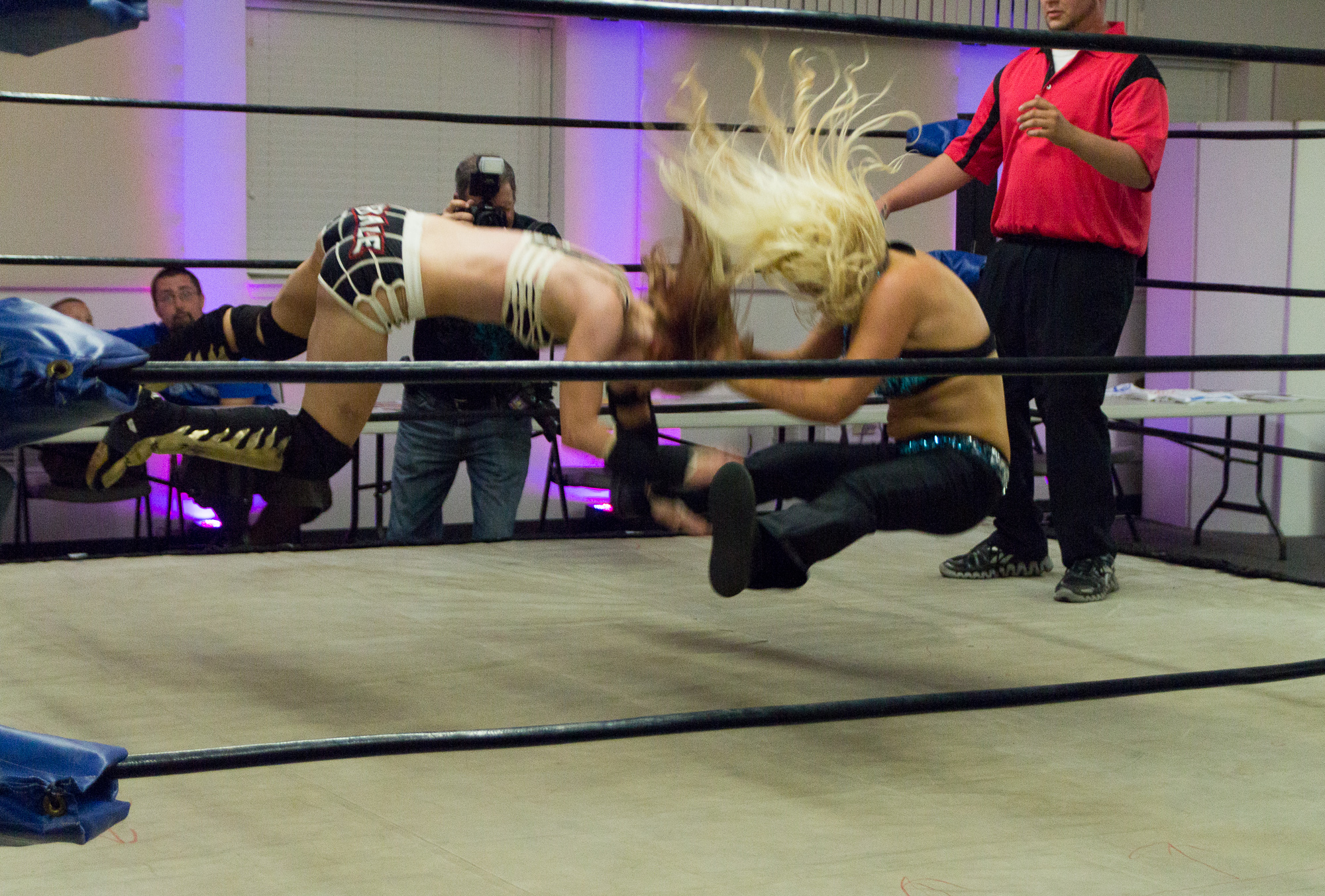 Jillian Hall performing a sit-out facebuster at an Xtreme Bombshells of Wrestling show in Port Huron, MI